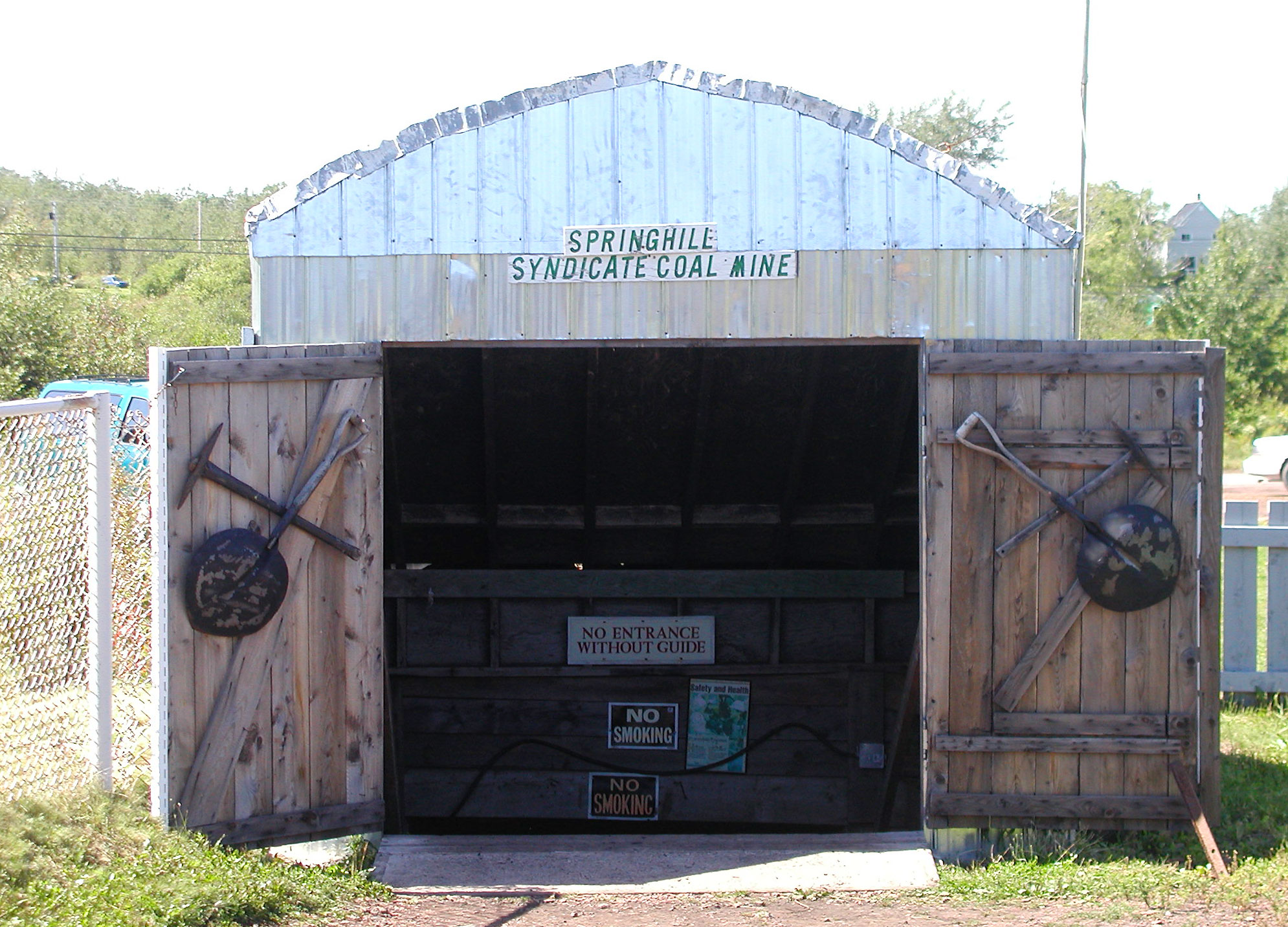 Entrance to a Springhill, Nova Scotia mine. This is the entrance for a shaft that is open to the public. Taken by me in 2003.--RobNS 18:40, 30 May 2007 (UTC)